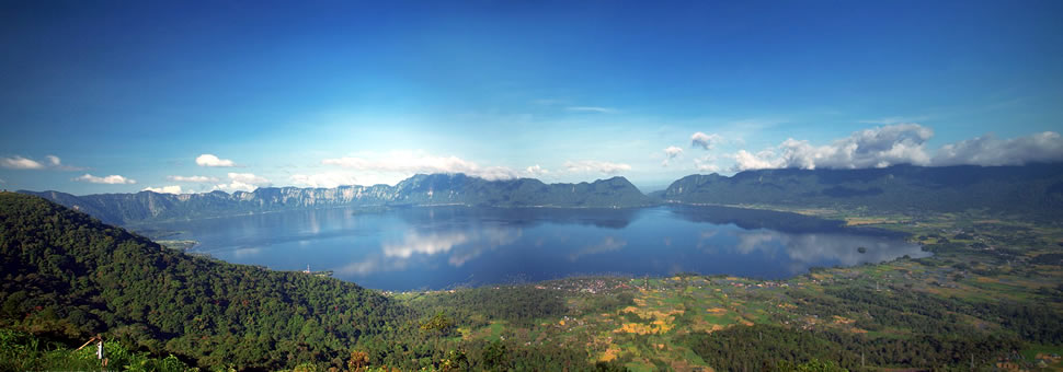 Lake Maninjau, a caldera lake in West Sumatra, Indonesia.